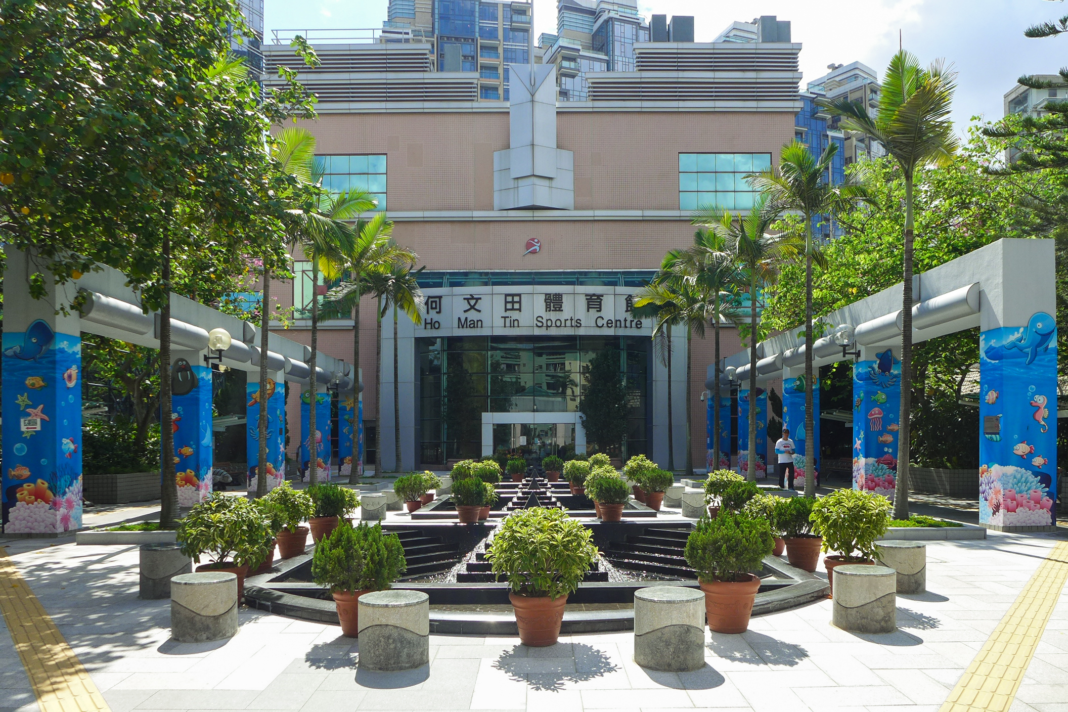 Ho Man Tin Sports Centre